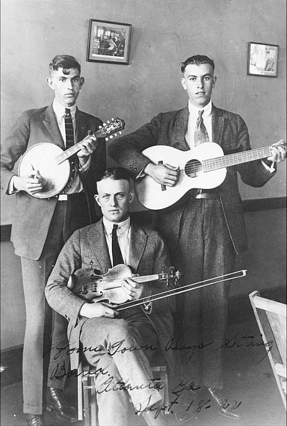 Clayton McMichen (fiddle) with the Whitten Brothers, probably Charlie (mandolin banjo) and Mike (guitar), billed as "The Home Town Boys" over WSB (Atlanta, GA), in 1922.